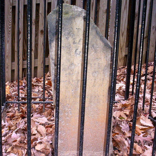 DC Boundary Stone Northwest Mile 1,that is the stone 1 mile northwest of the westernmost point in the original District of Columbia. Actually it is now in northern Virginia. The stone was placed in 1791-1792 by Andrew Ellicott and Benjamin Banneker. See for a map of these stones.